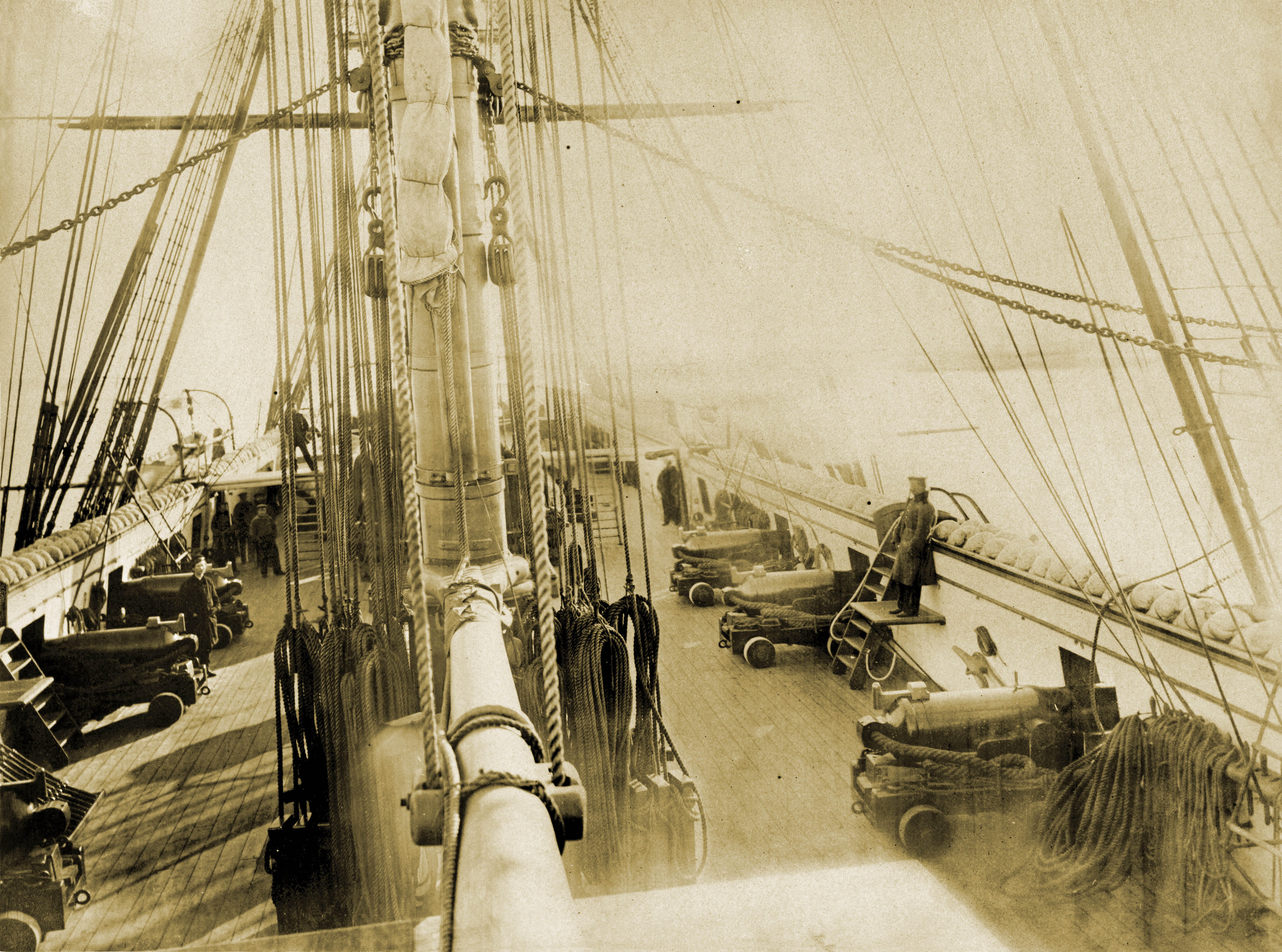 Title: The photographic history of the Civil War : thousands of scenes photographed 1861-65, with text by many special authorities Year: 1911 (1910s) Authors: Miller, Francis Trevelyan, 1877-1959 Lanier, Robert S. (Robert Sampson), 1880- Subjects: United States -- History Civil War, 1861-1865 Pictorial works United States -- History Civil War, 1861-1865 Publisher: New York : Review of Reviews Co. Text Appearing Before Image: N 9 M M i i Text Appearing After Image: COPTRIGMT. 1911, REVIEW OF REVIEWS CO. A FRIENDLY VISITOR Note About Images No. 240. Deck view of Russian frigate "Osliaba, Harbor of Alexandria, Va.